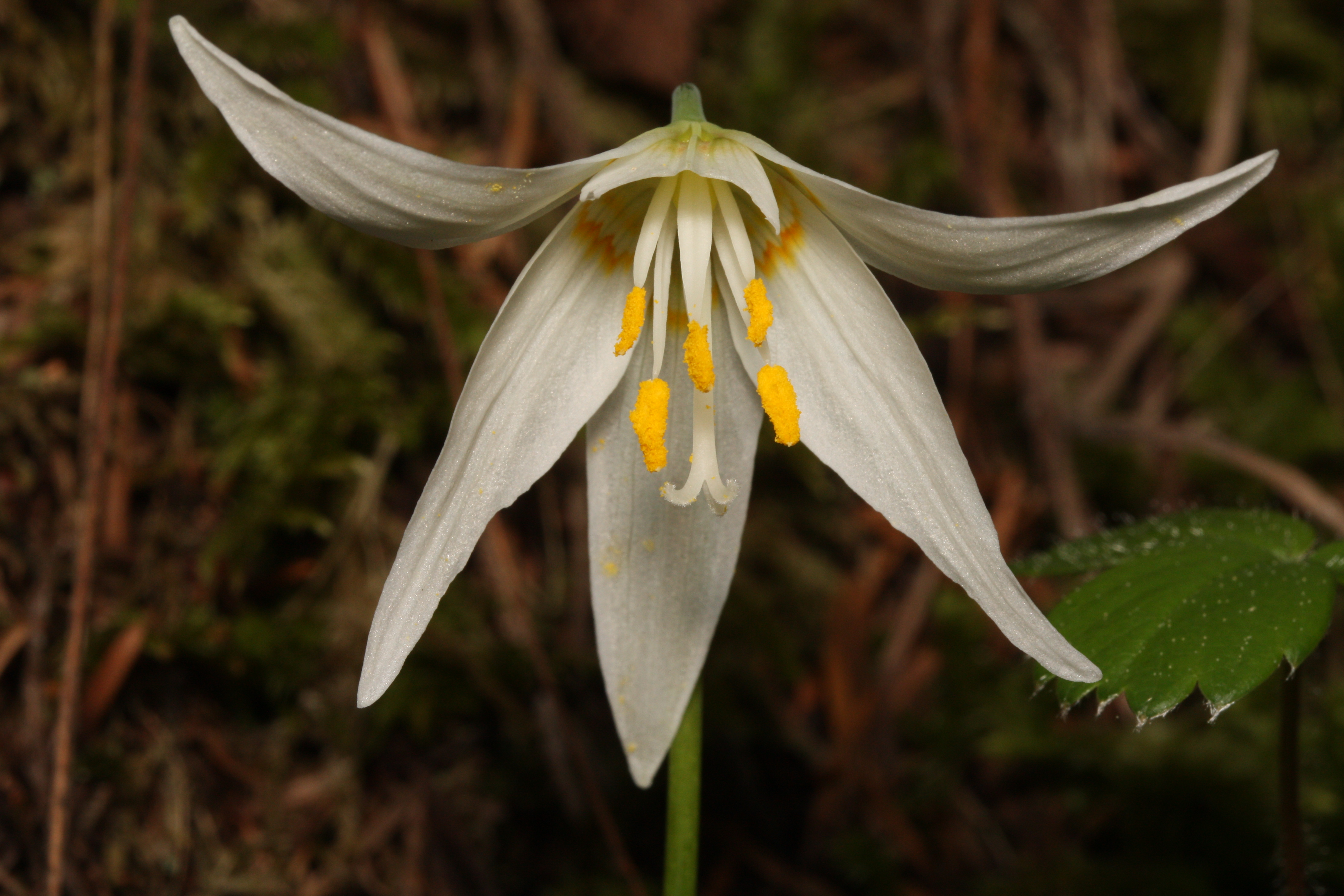 Giant White Fawn-lily, Deer's Tongue, Wild Easter Lily